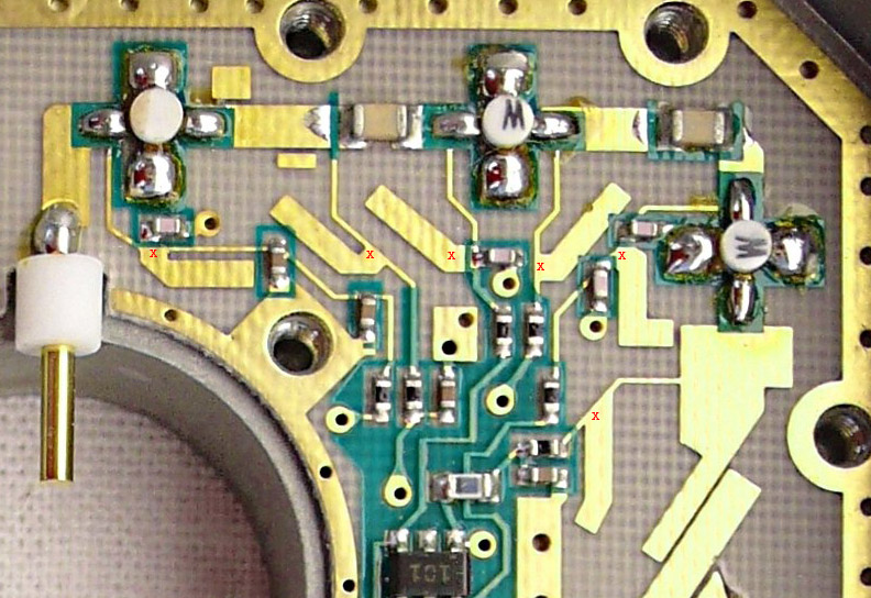 details of a LNB showing Lambda/4-stubs, starting at x-points.